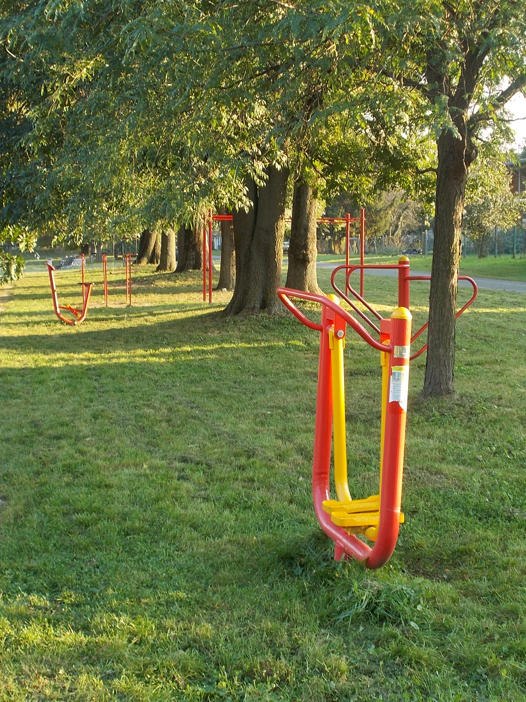 Outdoor fitnes park (Not trail) by Lake Szállásrét in Kis-Konda Stream Valley Protected Area. Part of the Kapos-hegyhát Nature Park, Dombóvár, Tolna County, Hungary.